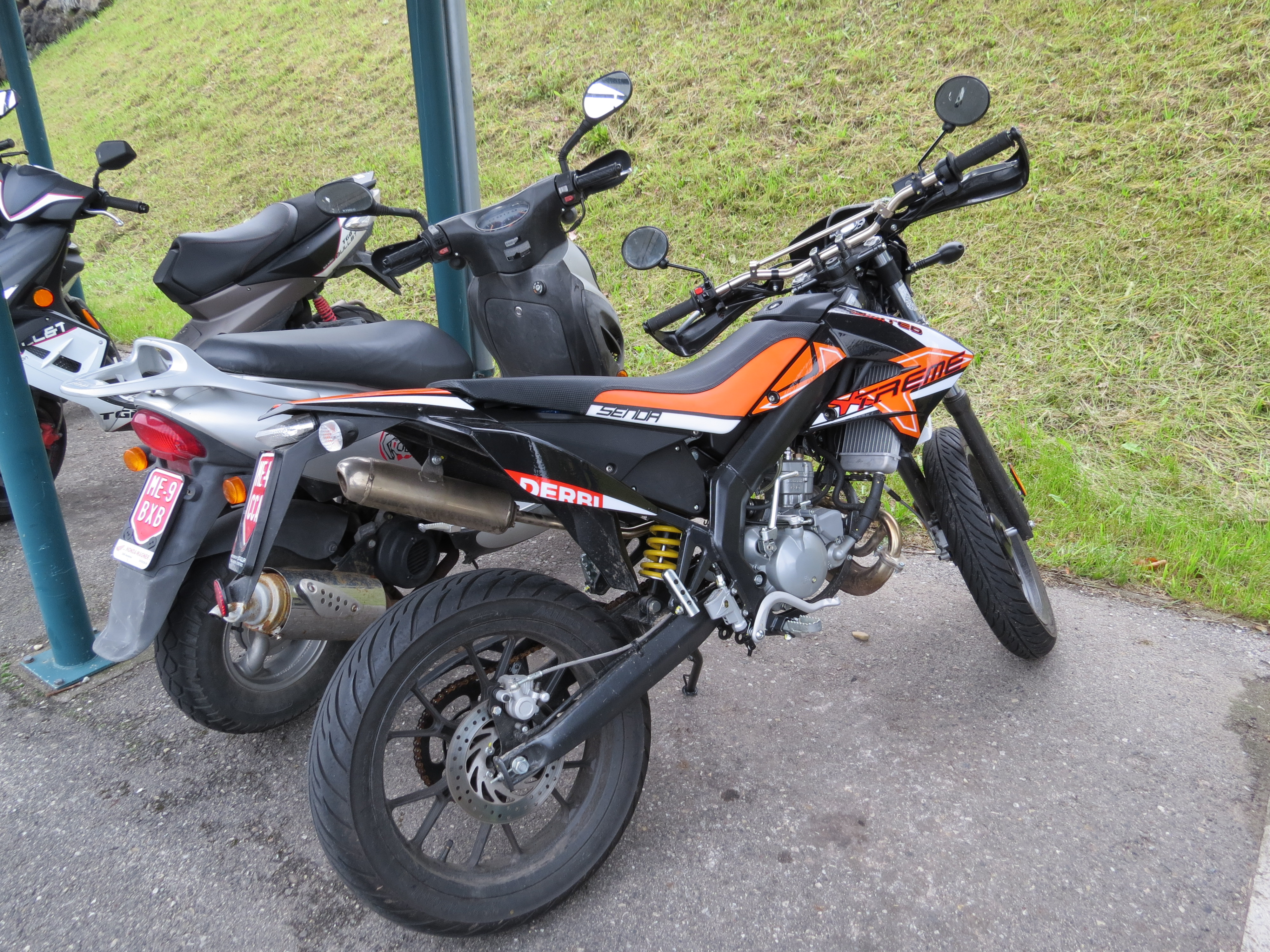 Derbi Senda X-Treme at Bahnhof Ybbs an der Donau